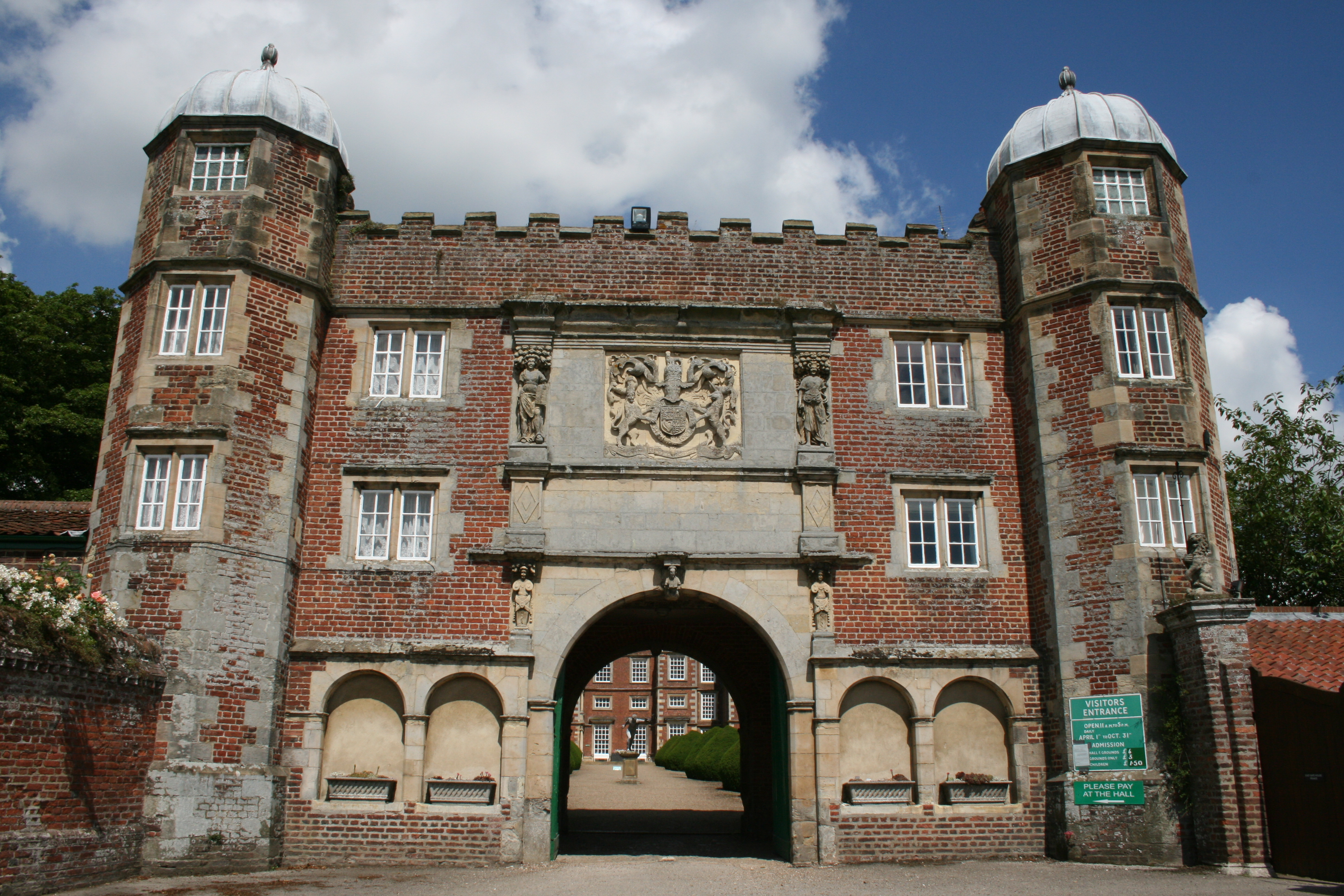 Burton Agnes Hall, Burton Agnes, East Riding of Yorkshire, England.A privately owned house, well worth a visit.